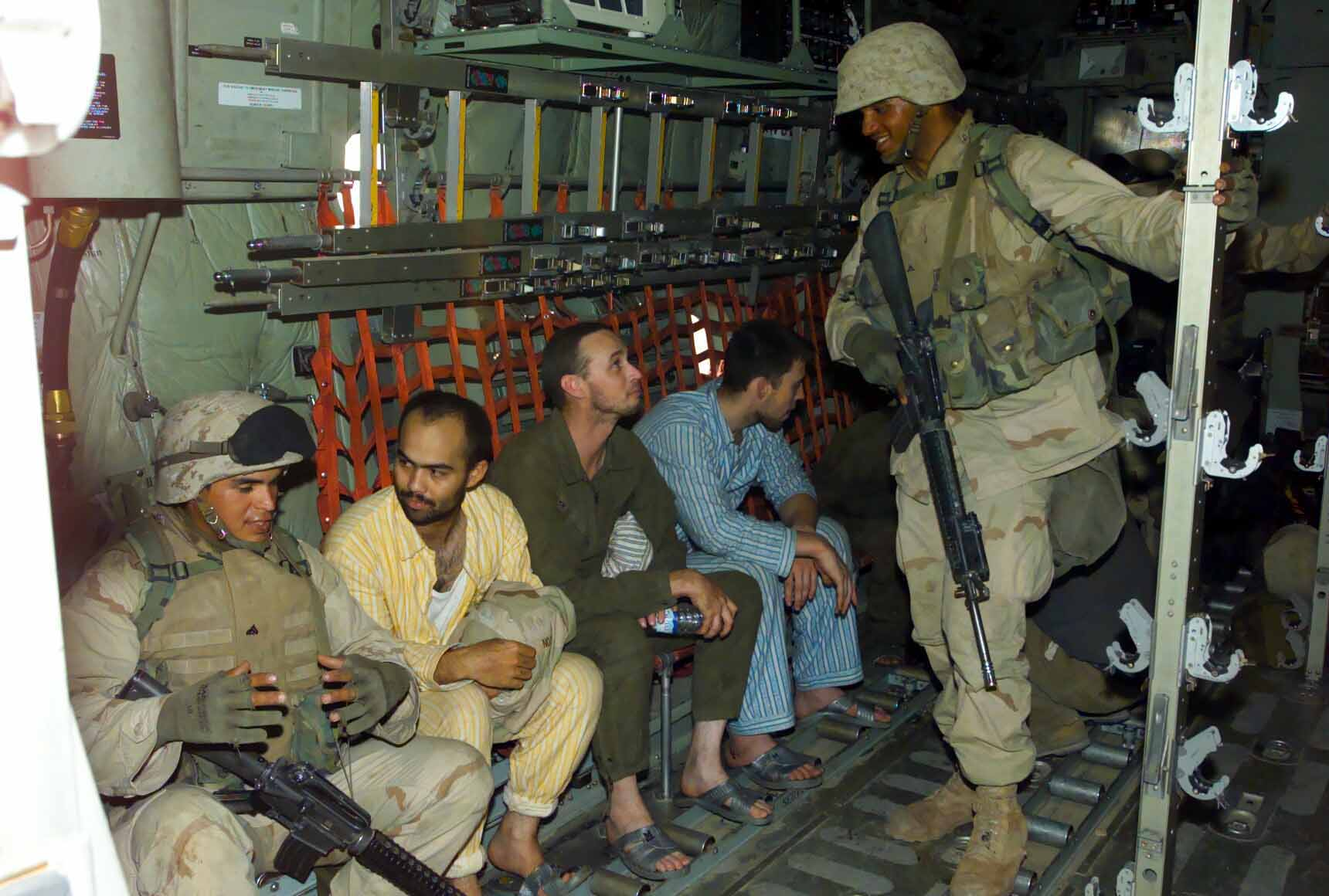 Kuwait City, Kuwait (April 13, 2003) – U.S. Marines assigned to the 3rd Light Armored Reconnaissance Battalion, talked with rescued U.S. Prisoners of War (POW) seated on a Marine Corps KC-130 Hercules cargo aircraft. The flight transported the POWs from an airfield near Baghdad, Iraq, to Kuwait City, Kuwait, following their repatriation with U.S. Military Forces conducting missions in support of Operation Iraqi Freedom. U.S. Marine Corps photo by Cpl Michael Leitenberger. (RELEASED)